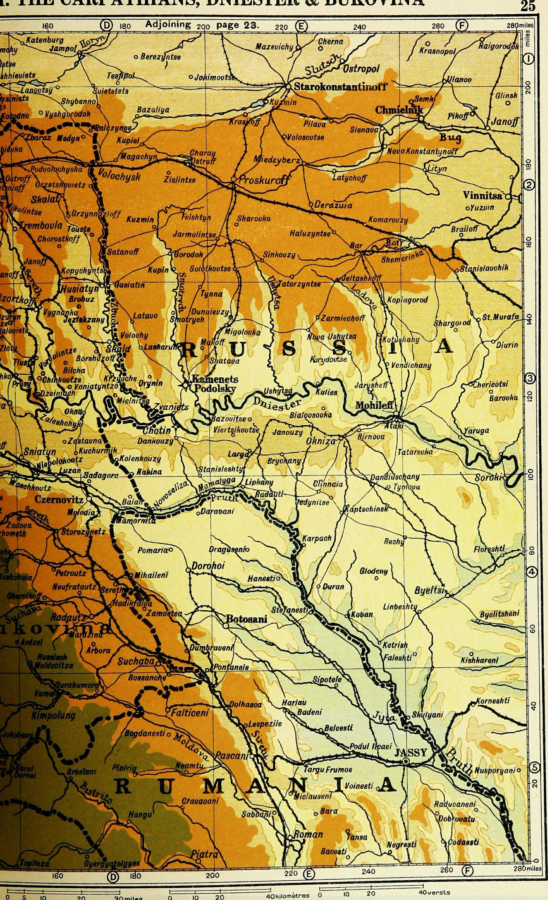 Title: The Times history of the war Year: 1914 (1910s) Authors: Subjects: World War, 1914-1918 World War, 1914-1918 Publisher: London, "The Times" Text Appearing Before Image: GEDRfiE PHILIP* 50H L Railways. fioads. .... Canals. 0-250 ft. dark green ; 250-500 ft. light green: 500-750 ft. yelloui i i Fortresses and Forts. 3312 Altitudes in Feet. 750-1000 ft. bujf: 1000-2000 ft. brown : over 2000 ft olioe. I. THE CARPATHIANS, DNIESTER & BUKOVINA Text Appearing After Image: 40kilometre9 0 10 20 26 THE ITALIAN nelrgau IQO^ BichI f. SchlieliseXVf lynsohzell Obetammgrg, Innsbruck u SrsnnsQS: y^ Breiui«r P. 1J **t ^ o V / *^ ^ Toi/fers ^ O